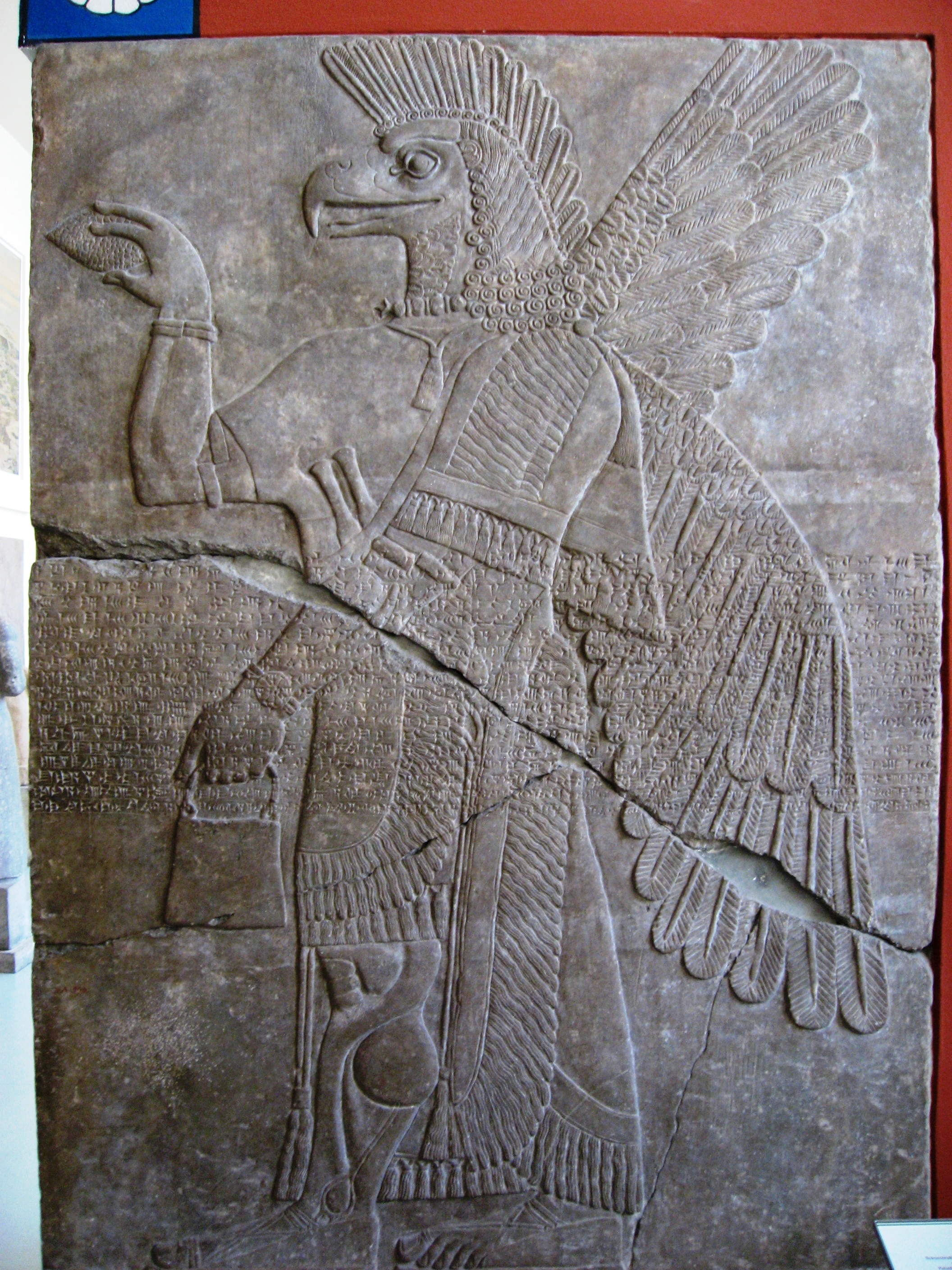 mythological beast from the reconstruction of an Assyrian chamber in the Vorderasiatisches Museum in the Pergamonmuseum in Berlin